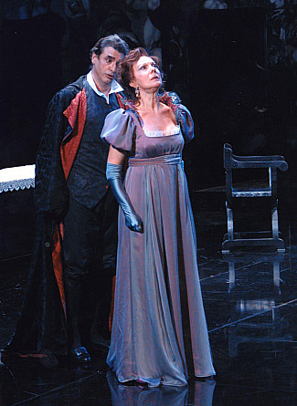 A photo from a opera performance with Raina Kabaivanska